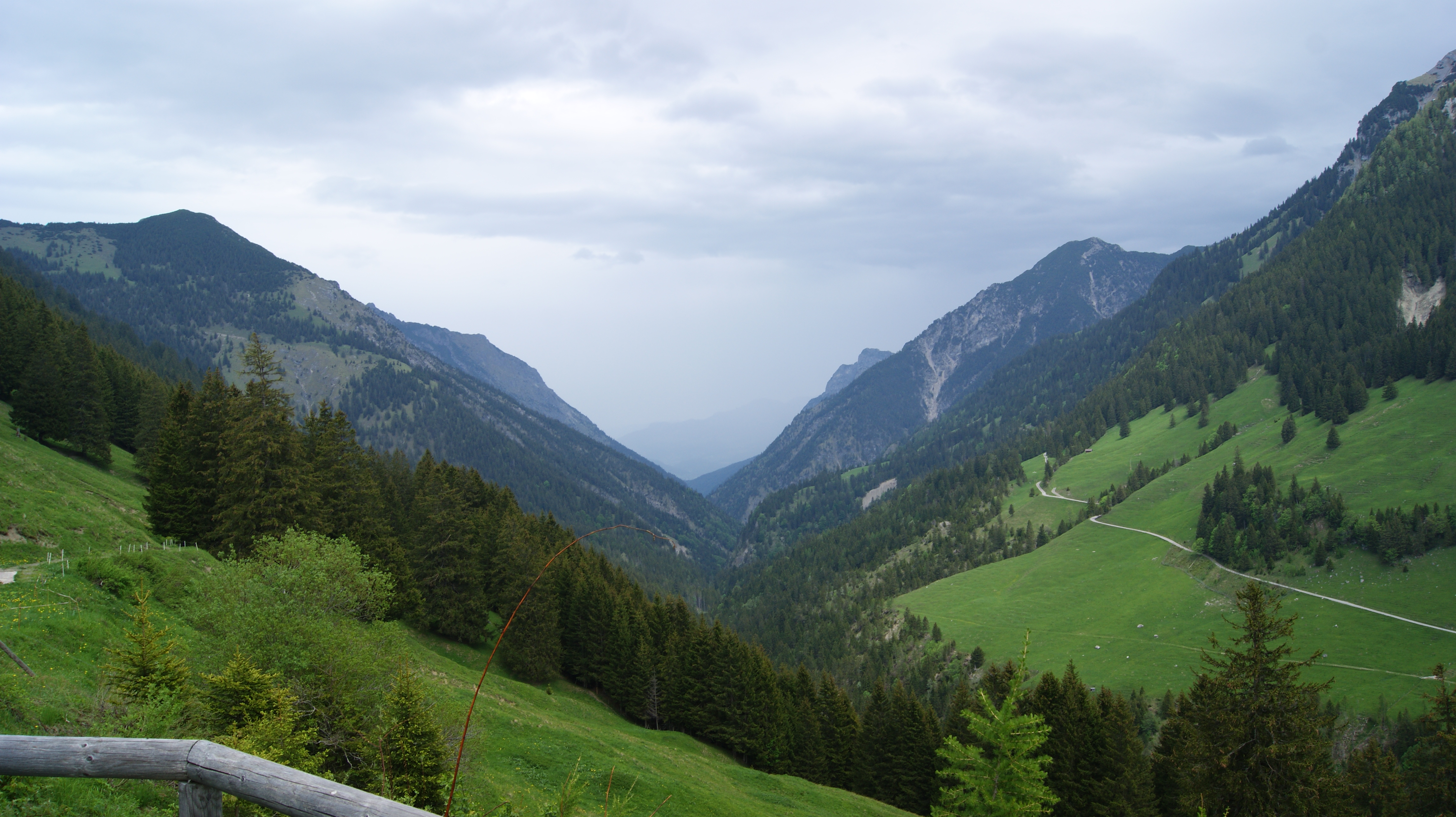 Steg in the Principality of Liechtenstein. View from Steg to the Saminatal.